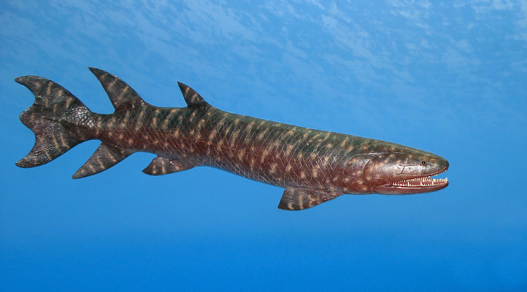 Model reconstruction of Eusthenopteron at the State Museum of Natural History in Stuttgart